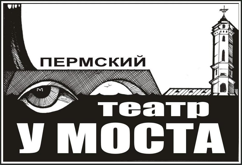 Logo of the Theatre Near the Bridge in Perm.